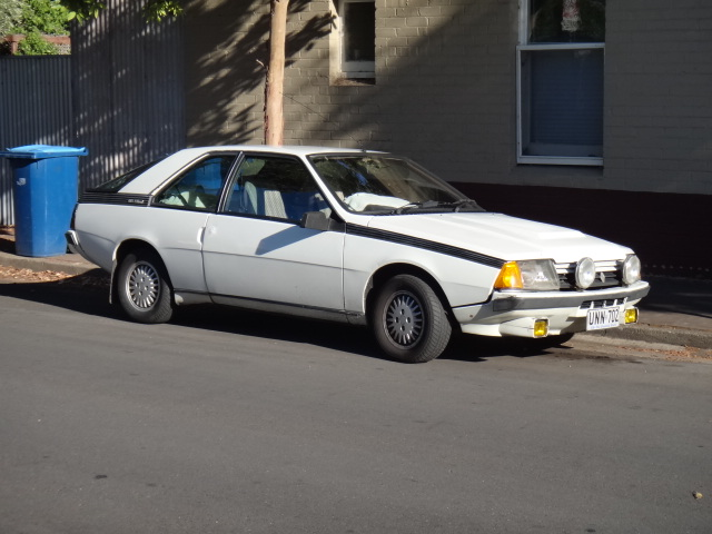 This is for 'Fuego 81'!! I couldn't believe it when I walked around the corner the other morning from dropping my car off for a service and saw this sitting there soaking up the morning sunshine!! It's not everyday I get to see an old Feugo getting around the streets, so this was a treat for me! Also, notice the towel covering the steering wheel!!?? From what I can remember, it was +41 degrees that day, so it was a good thing the owner did that, so they could at least touch the steering wheel when they got back in the car!!